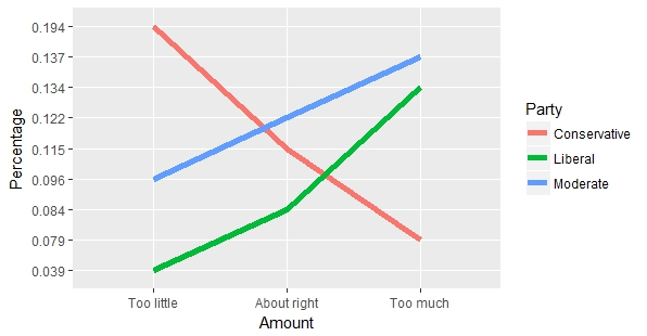 Example bump plot of opinion on defense spending by political party (fabricated data)